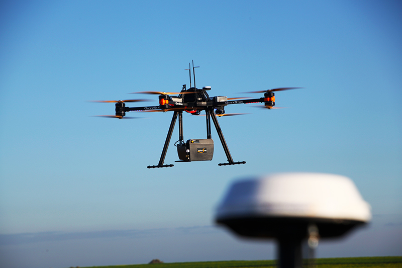 LIDAR survey being performed with a Yellowscan LIDAR on the OnyxStar FOX-C8 HD from AltiGator in November 2015, Belgium.